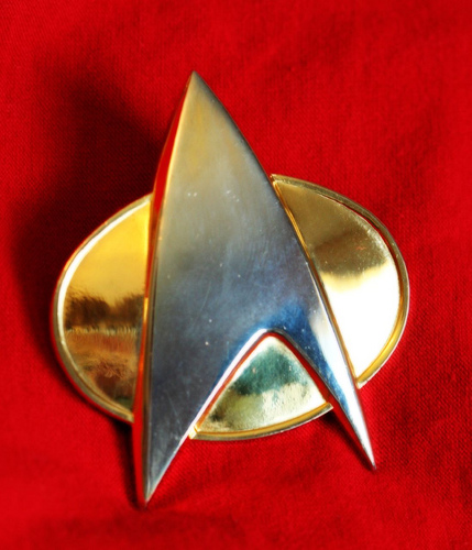 An accurate reproduction of a communication badge as used in Star Trek: The Next Generation.